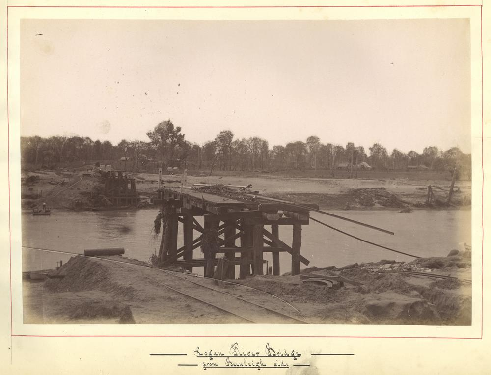 Flood damage to the Logan River railway bridge, looking from the Beenleight side, Beenleigh, 1887. This album was compiled by Queensland Railways to illustrate flood damage done to rail bridges and tracks during the flood of 21 January 1887. The album was presented to Sir S. W. Griffith.